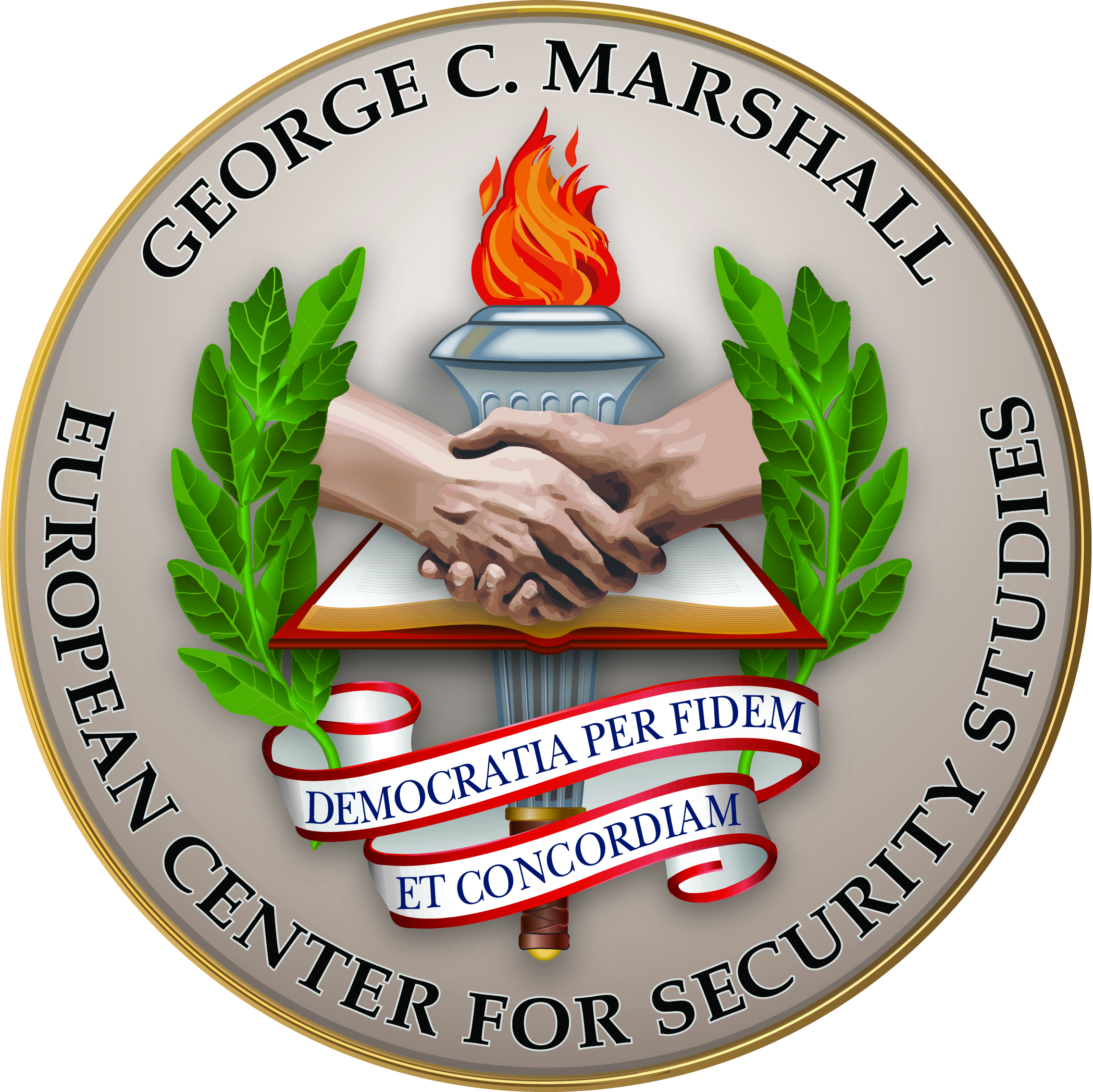 The official seal for the George C. Marshall European Center for Security Studies.